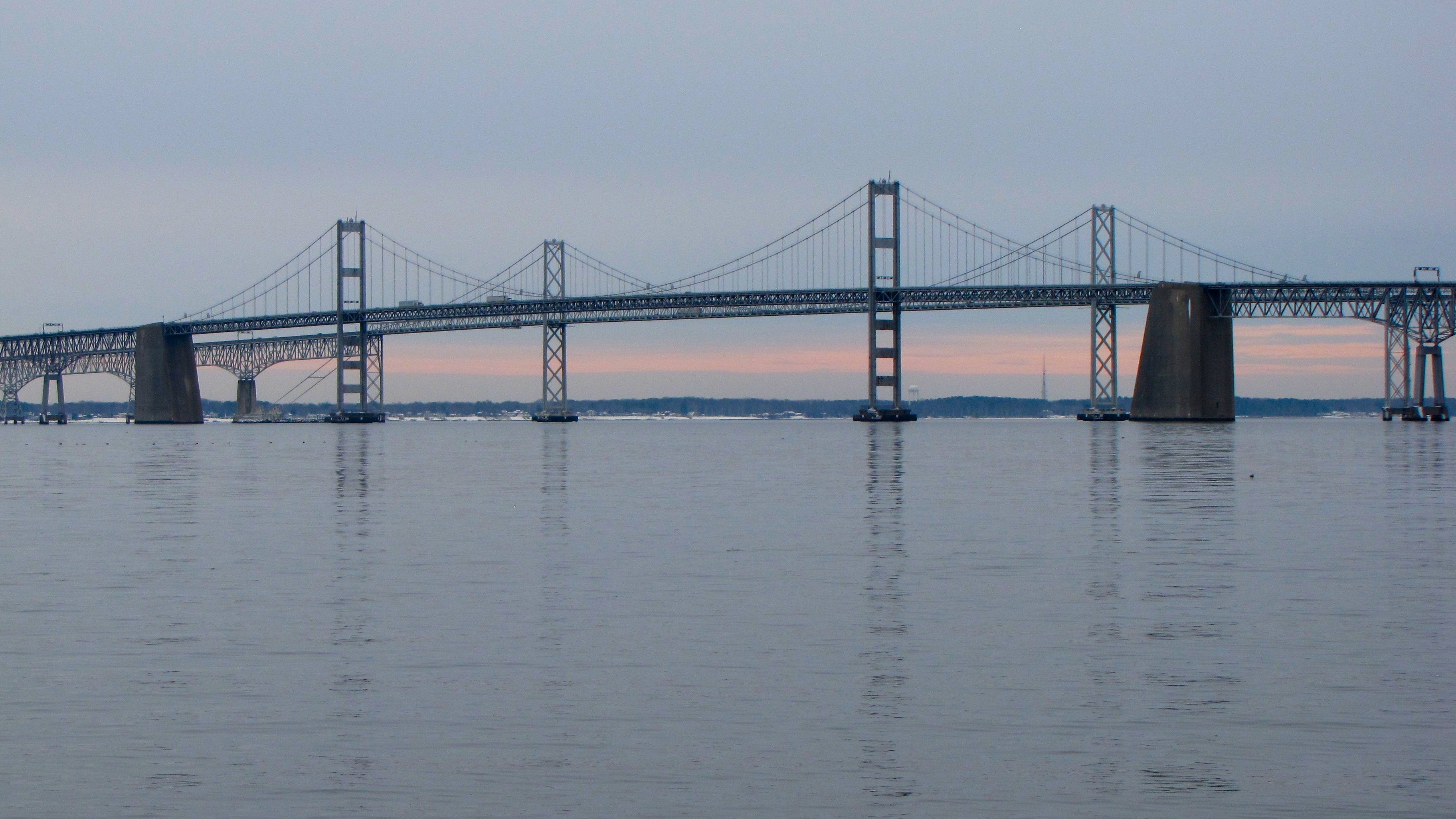 The Chesapeake Bay Bridge as viewed from Sandy Point State Park in Anne Arundel County, Maryland.